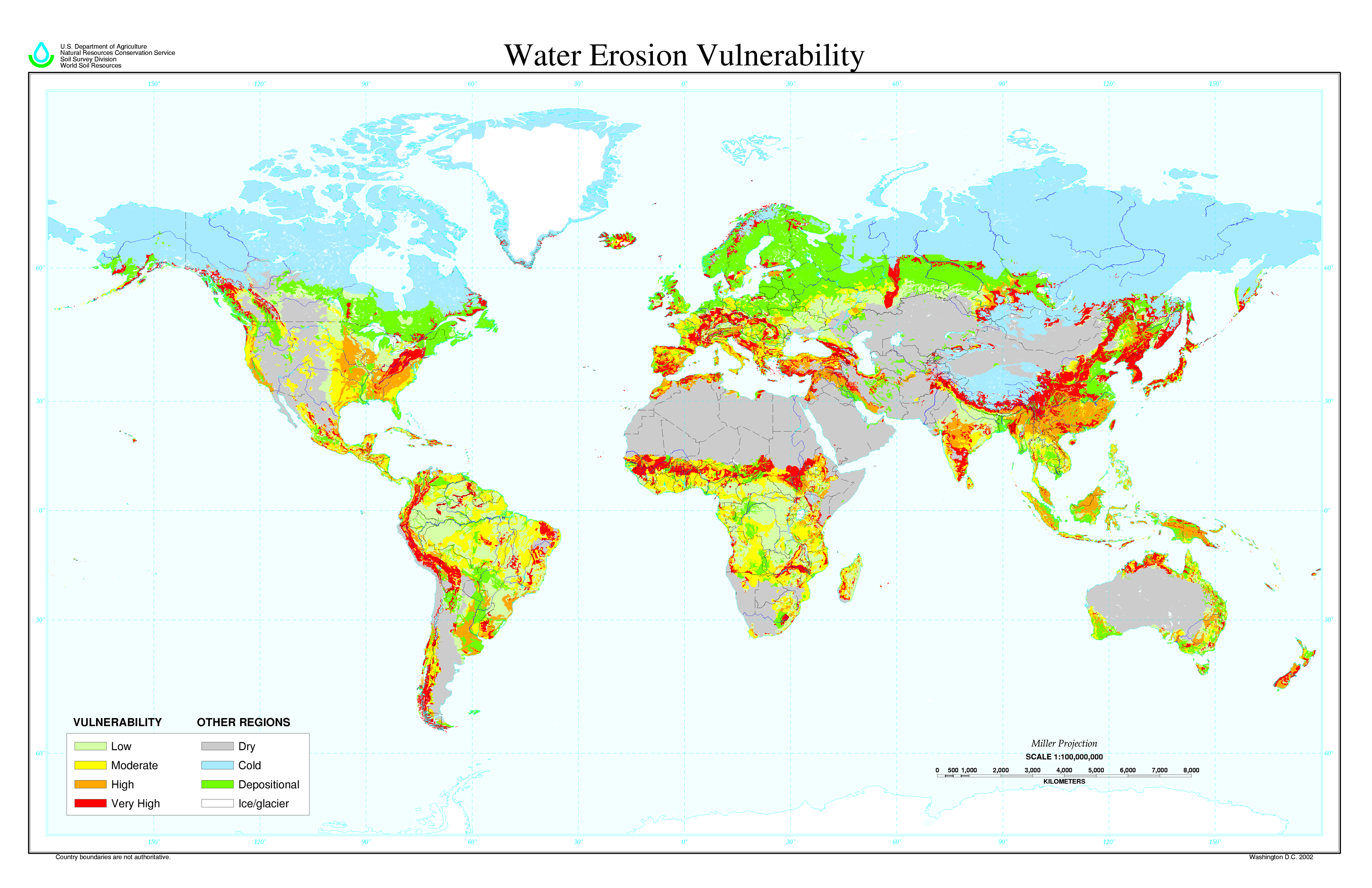 Water Erosion Vulnerability Map